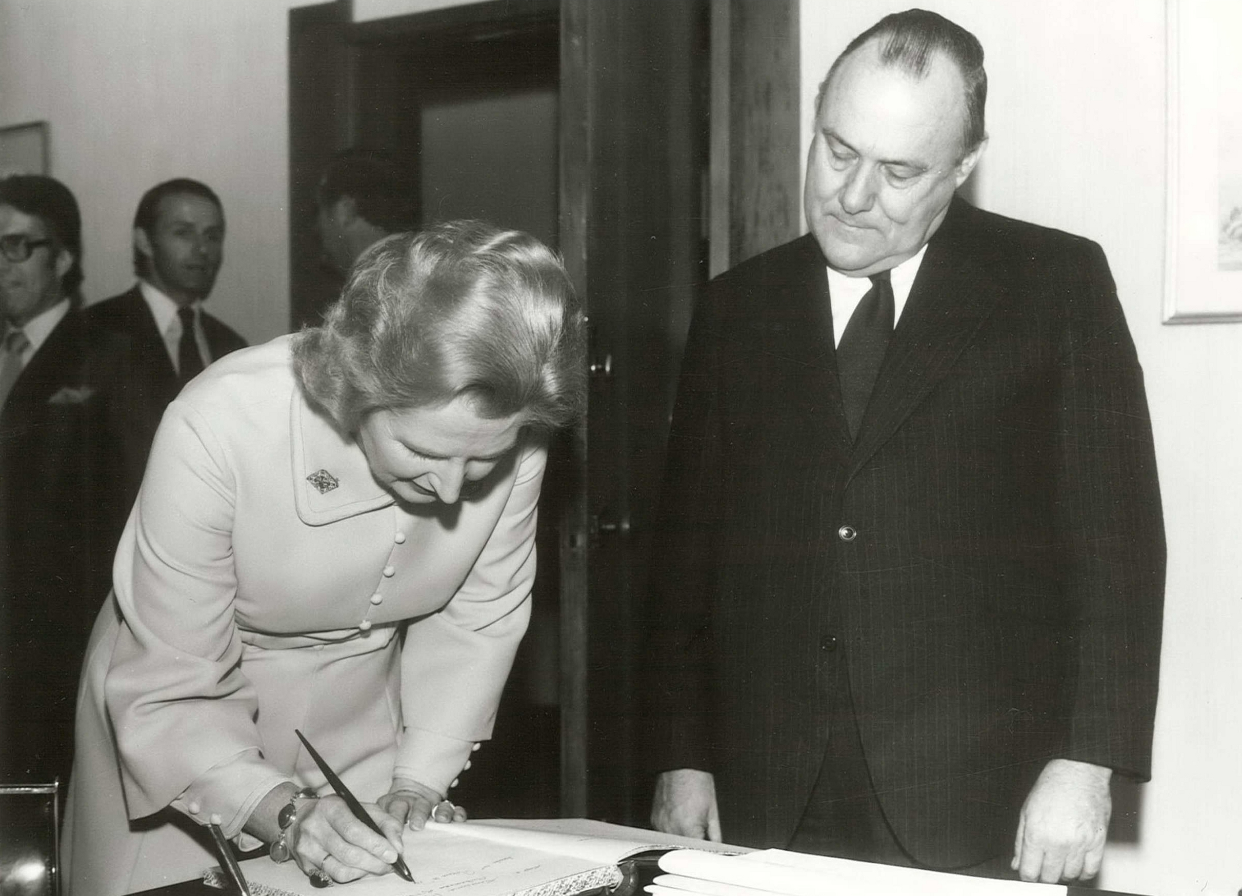 These images shown here are from Thatcher's visit to New Zealand in 1976, when she was leader of the opposition. She visited New Zealand from 8-13 September, accompanied by her husband Denis. During her visit she met the Auckland Chamber of Commerce (pictured above with NZ Prime Minister Robert Muldoon) and a dinner with the New Zealand National Party, from where the picture of Thatcher and the children was taken. Also during her visit, she met the leader of the opposition and held discussions with various cabinet ministers.